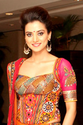 Kulraj at chaar din ki chandani hong kong premiere